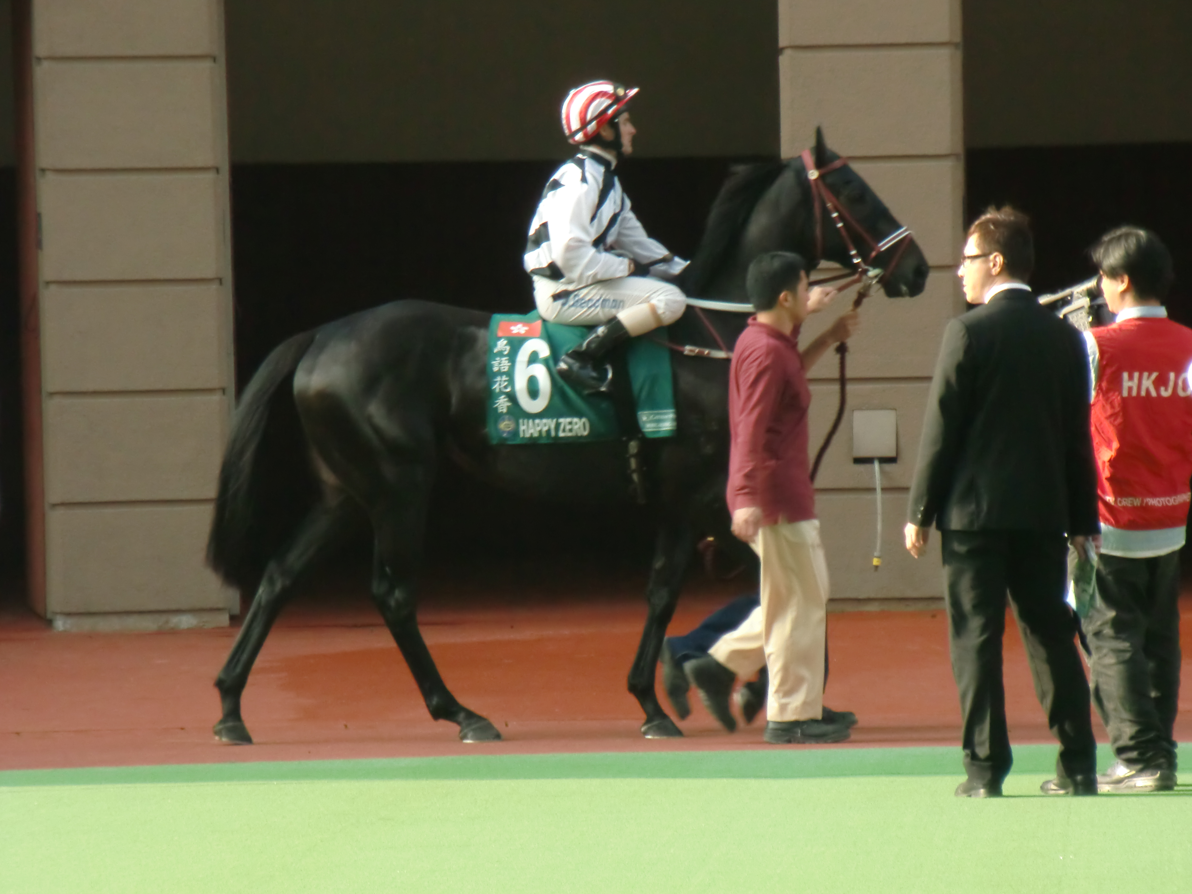 Happy Zero (AUS), A Thoroughbred racehorse (by Danzero from Have Love) who won Pattern races